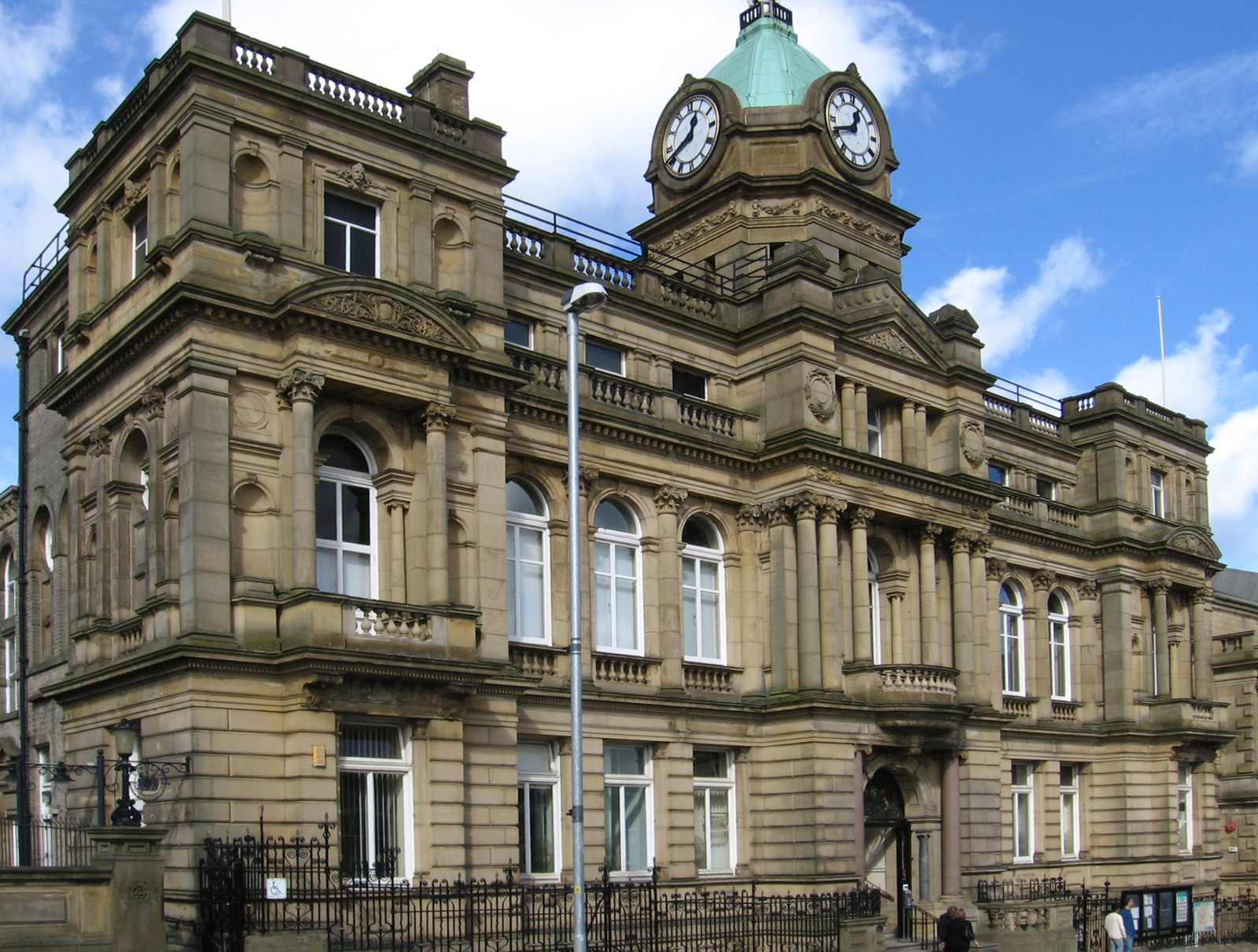 Photograph of the Town Hall, Burnley. Used in the Hetty Wainthropp Investigates episode "For Love nor Money".